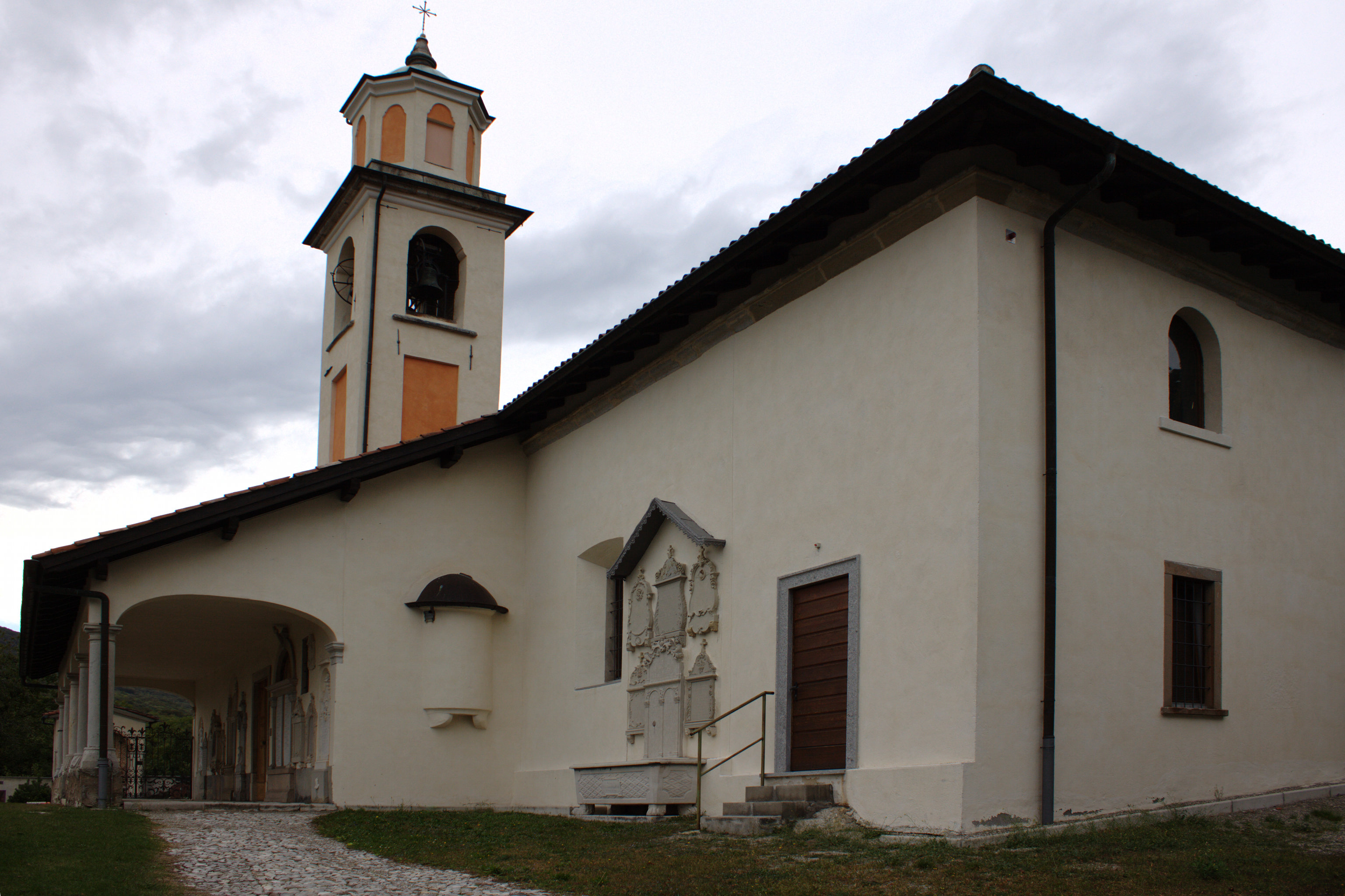 Saint Silvestro church in Meride, Switzerland - Front view